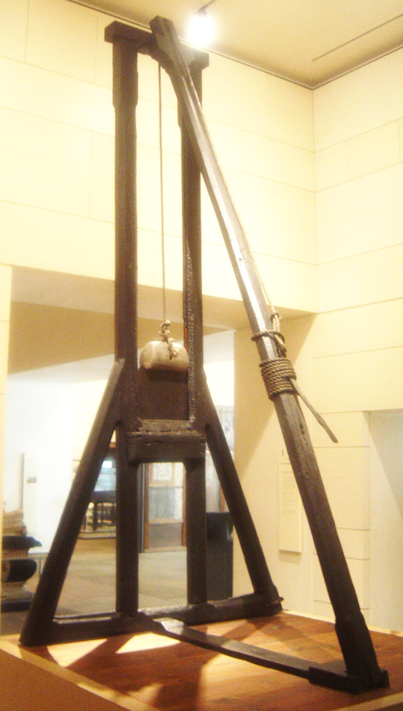 The Maiden (old-style Scottish guillotine) Photo taken at the National Museum of Scotland, Edinburgh